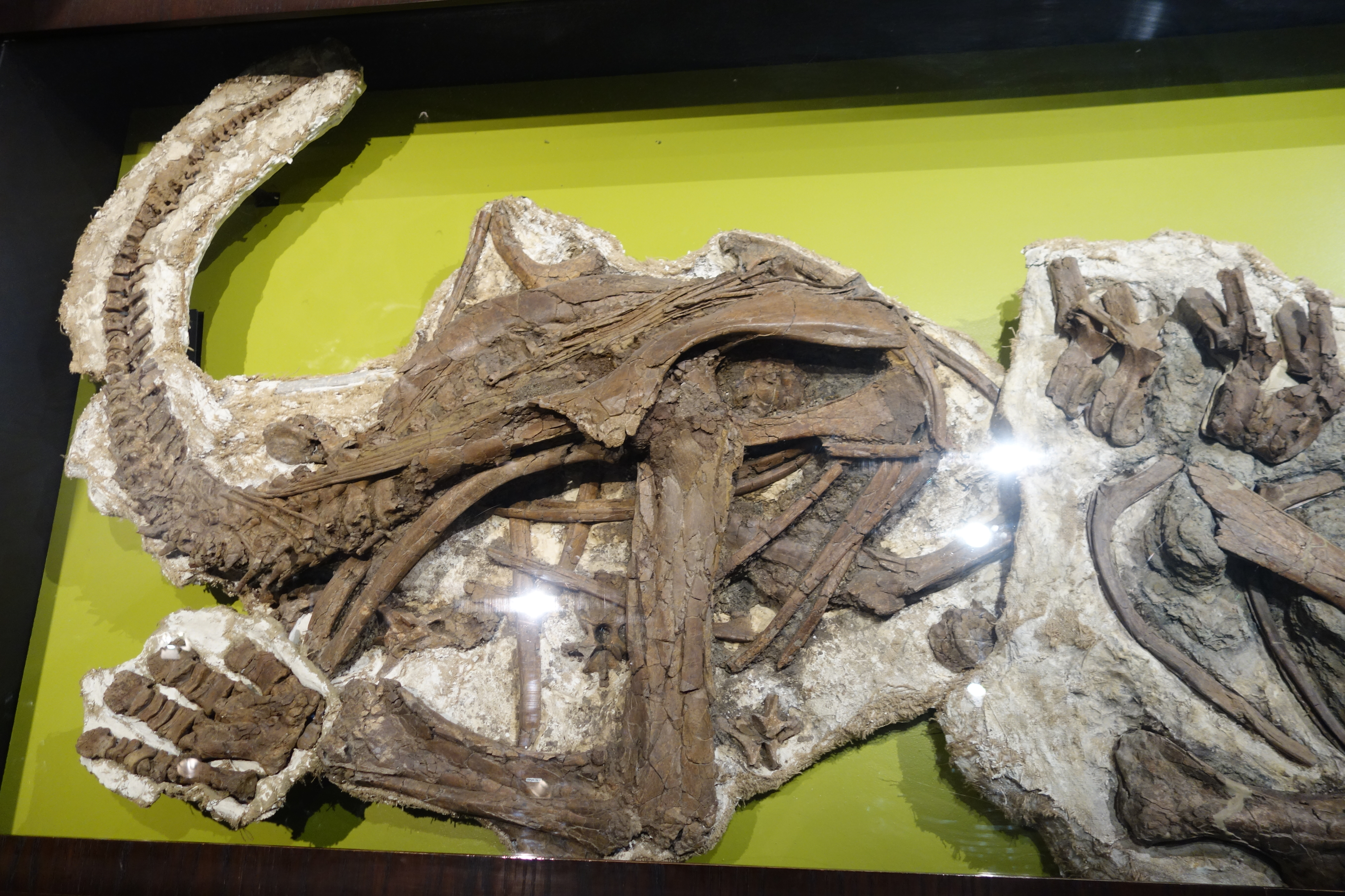 The Sage Creek Styracosaurus (Styracosaurus albertensis), the skull of which was reportet to the Royal Tyrrell Museum in 1989. Original, on display at the Royal Tyrrell Museum.